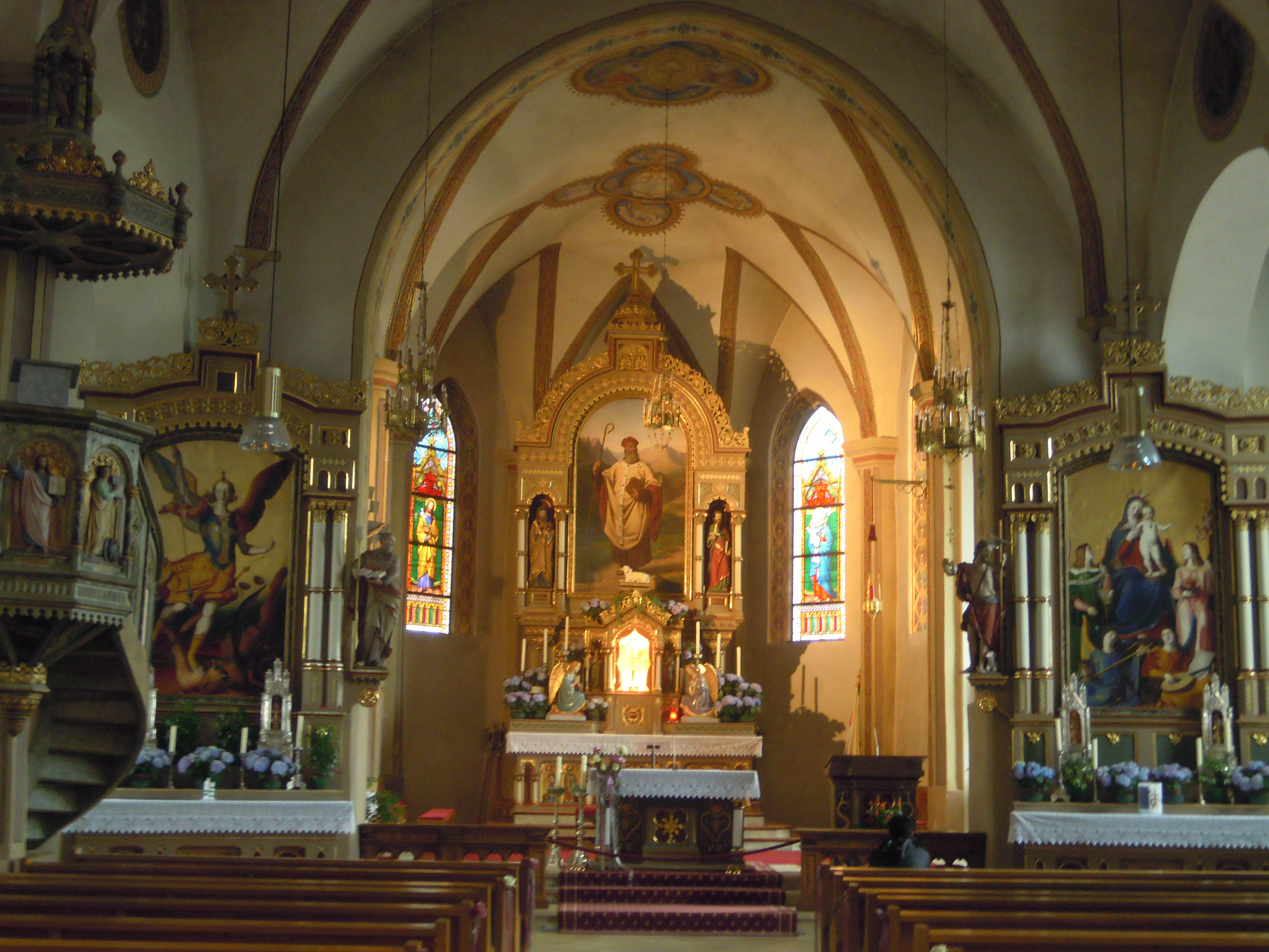 Sanctuary of St. Valentine's Church in Nauders, Tyrol